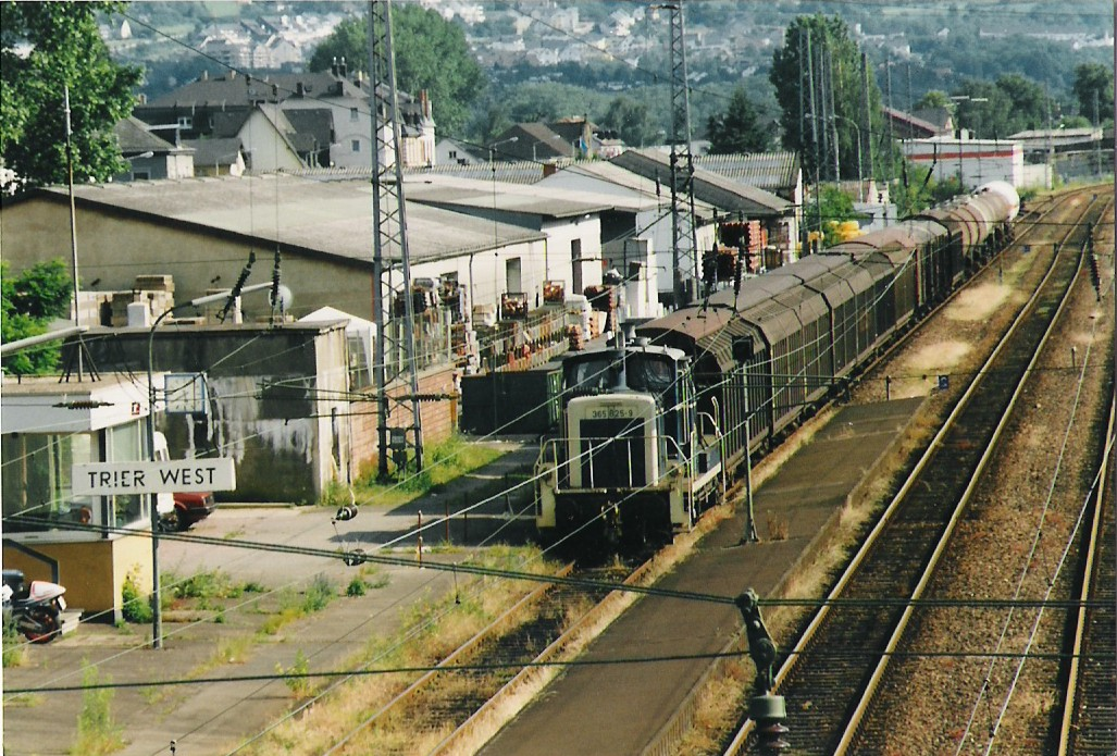 Ein Übergabe-Güterzug mit 365 825 gegen 17:55h am 18. Juni 1997 in Trier-West in Richtung Ehrang. Die Wagen kamen von der Zigarettenfabrik Reynolds Tobacco (später Japan Tobacco International) und die Kesselwagen von der Sektkellerei Faber (später Schloss Wachenheim). Der Mittelbahnsteig wurde wenige Jahre später abgetragen.